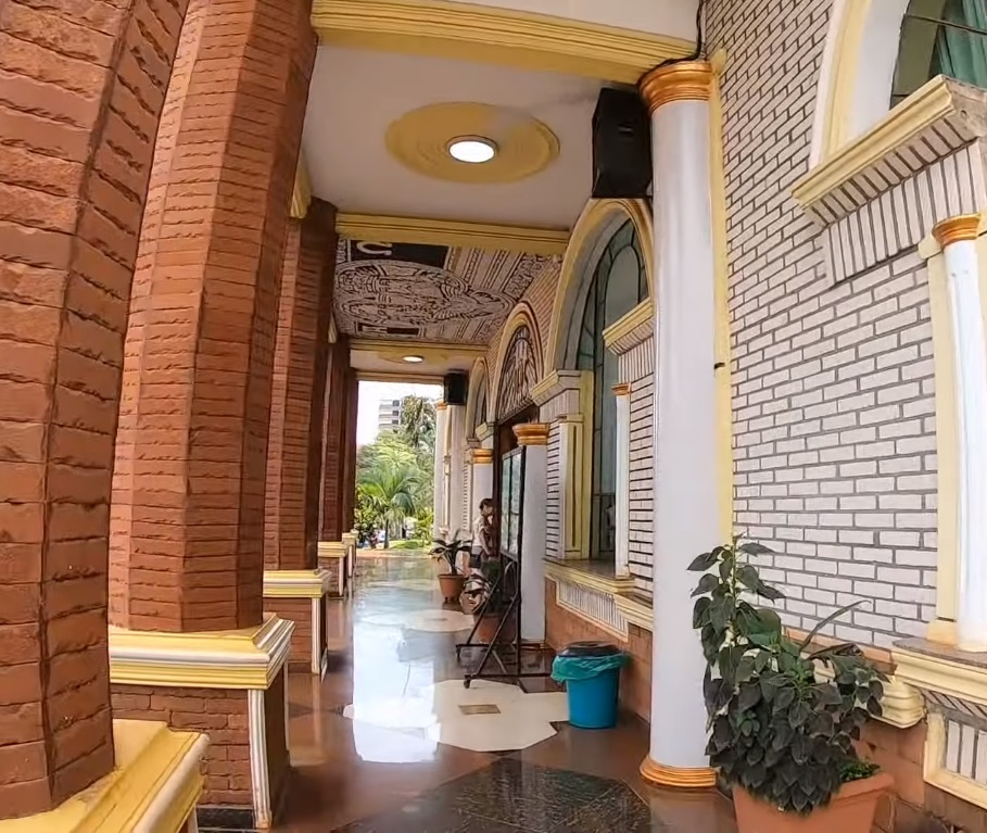 San Lucas Church in Ciudad del Este